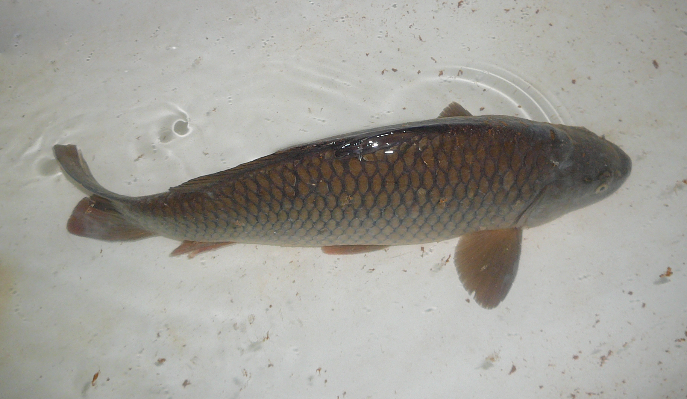 Christmas carp in bathtub